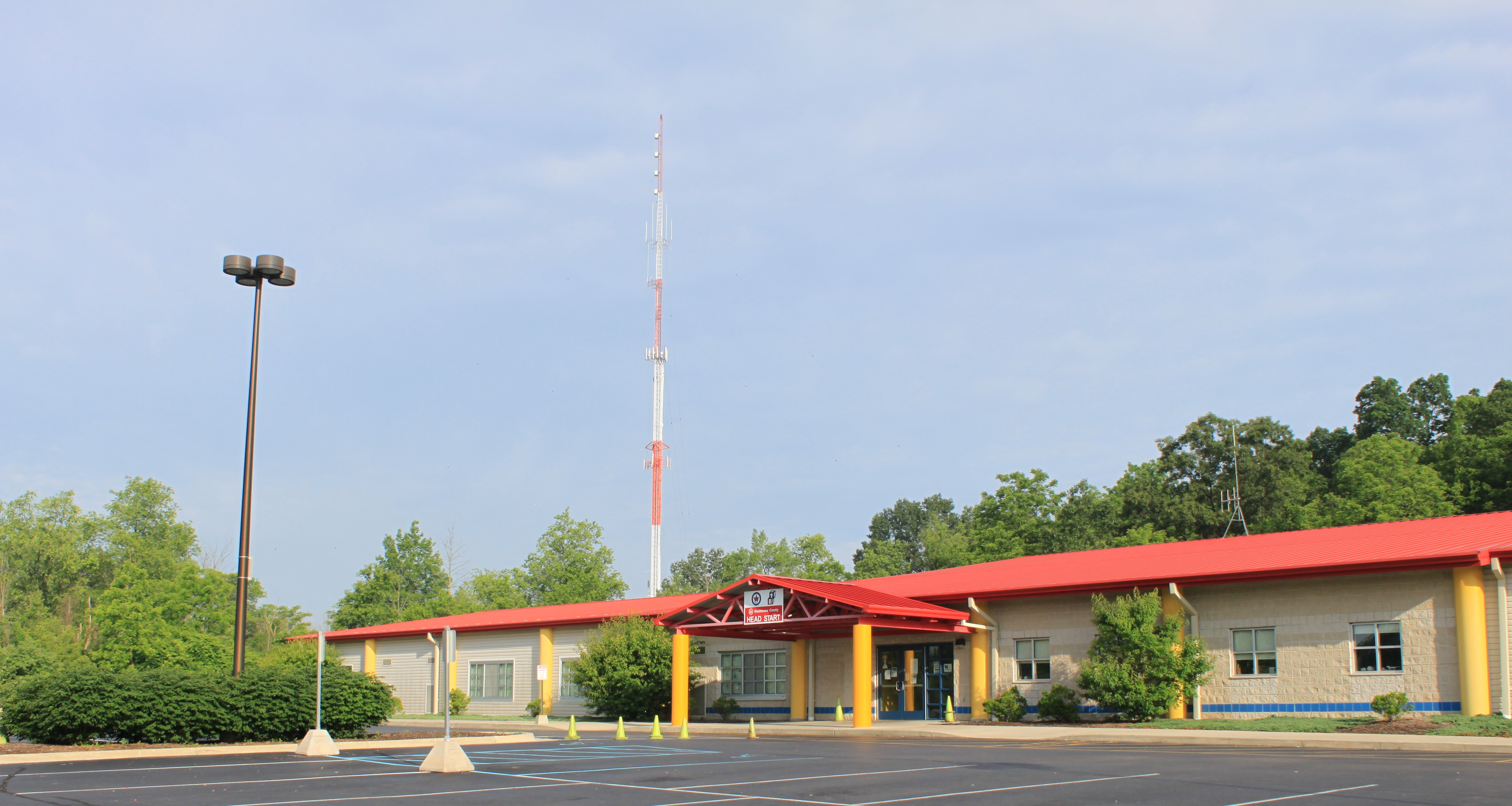 Washtenaw County Head Start school, 1661 Geddes Road, Superior Township, Michigan 48198